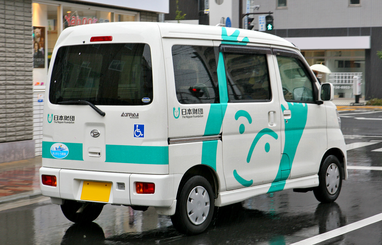 Daihatsu Atrai Sloper, with wheelchair slope